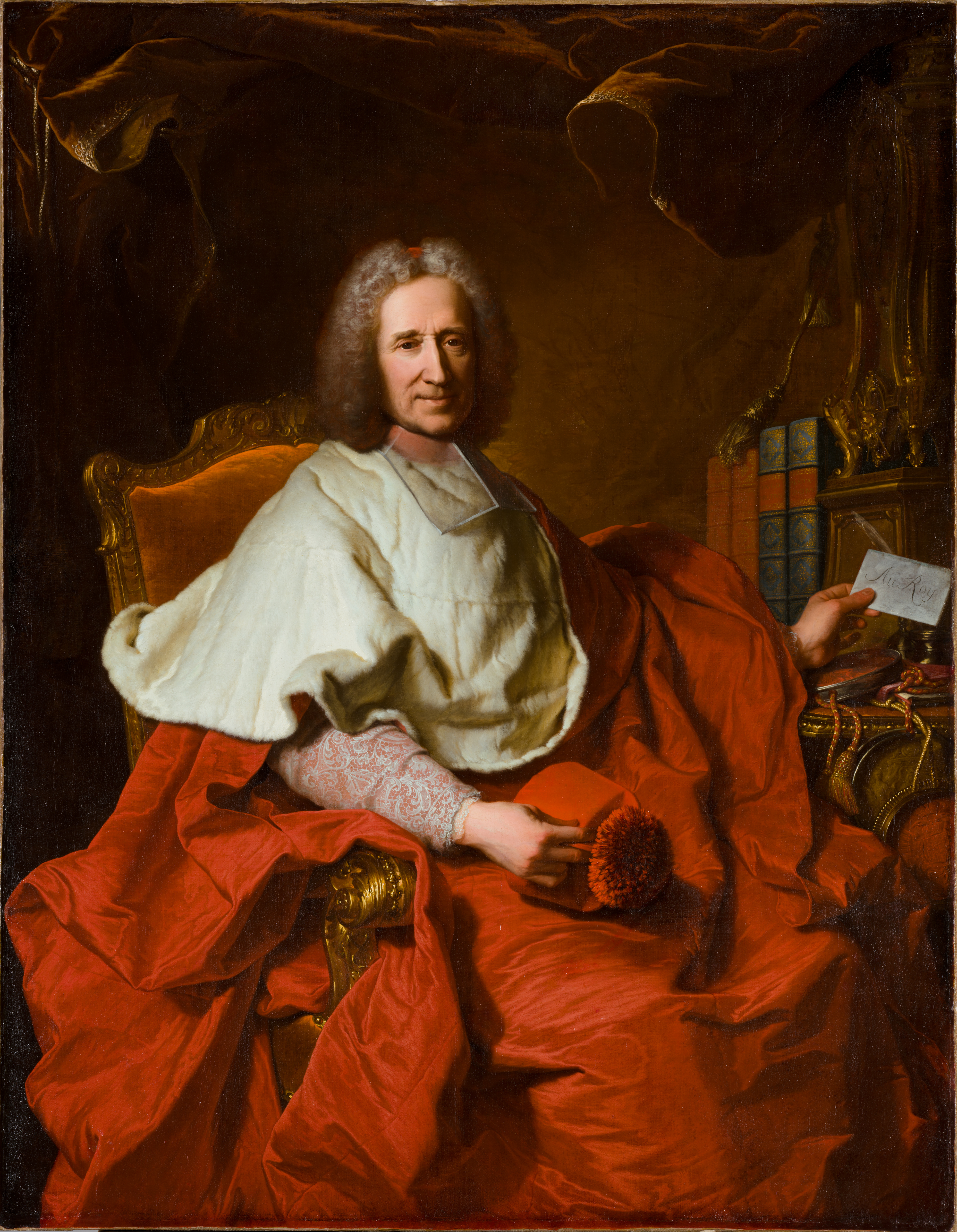 Luxurious, flamboyant dress—a voluminous wrap of scarlet silk topped by a short fur cape—signals that the subject of Hyacinthe Rigaud’s portrait was clearly a man of consequence. Guillaume Dubois gained the favor of Louis XIV as tutor to his grandson, the future king Louis XV, and served as chief minister under Louis’s successors, the regent Duke of Orleans and Louis XV. Dubois was appointed a cardinal in the Catholic Church in 1721, a lofty aspiration at least partly motivated by political ambition: the title gave him the power to remove political adversaries with impunity. Dubois holds a letter with the words Au Roy (to the king), commemorating the moment he had the honor of proclaiming his former student as king.